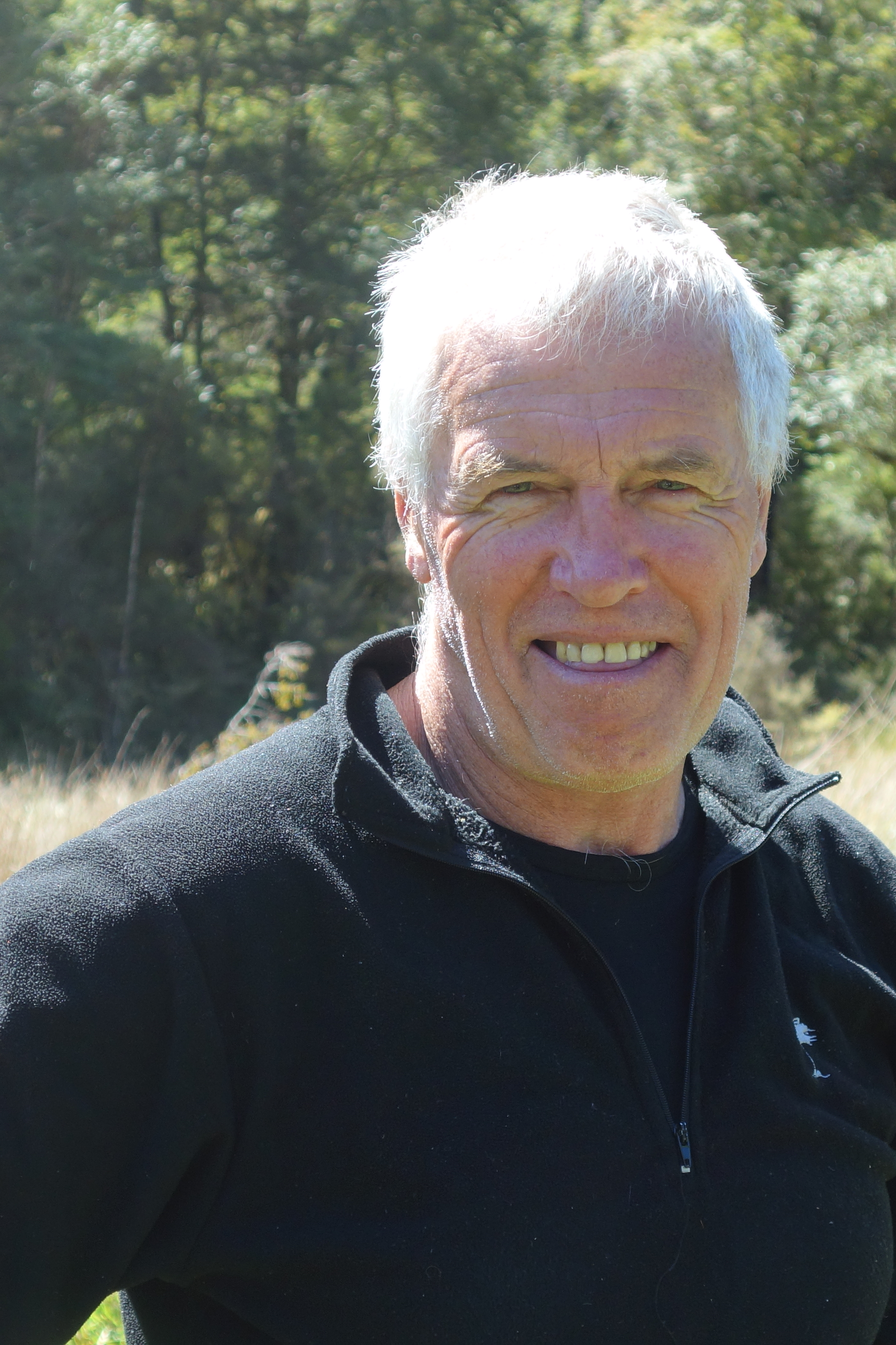 Steve Stack, known as Stacky, is one of the key players who established the Old Ghost Road.